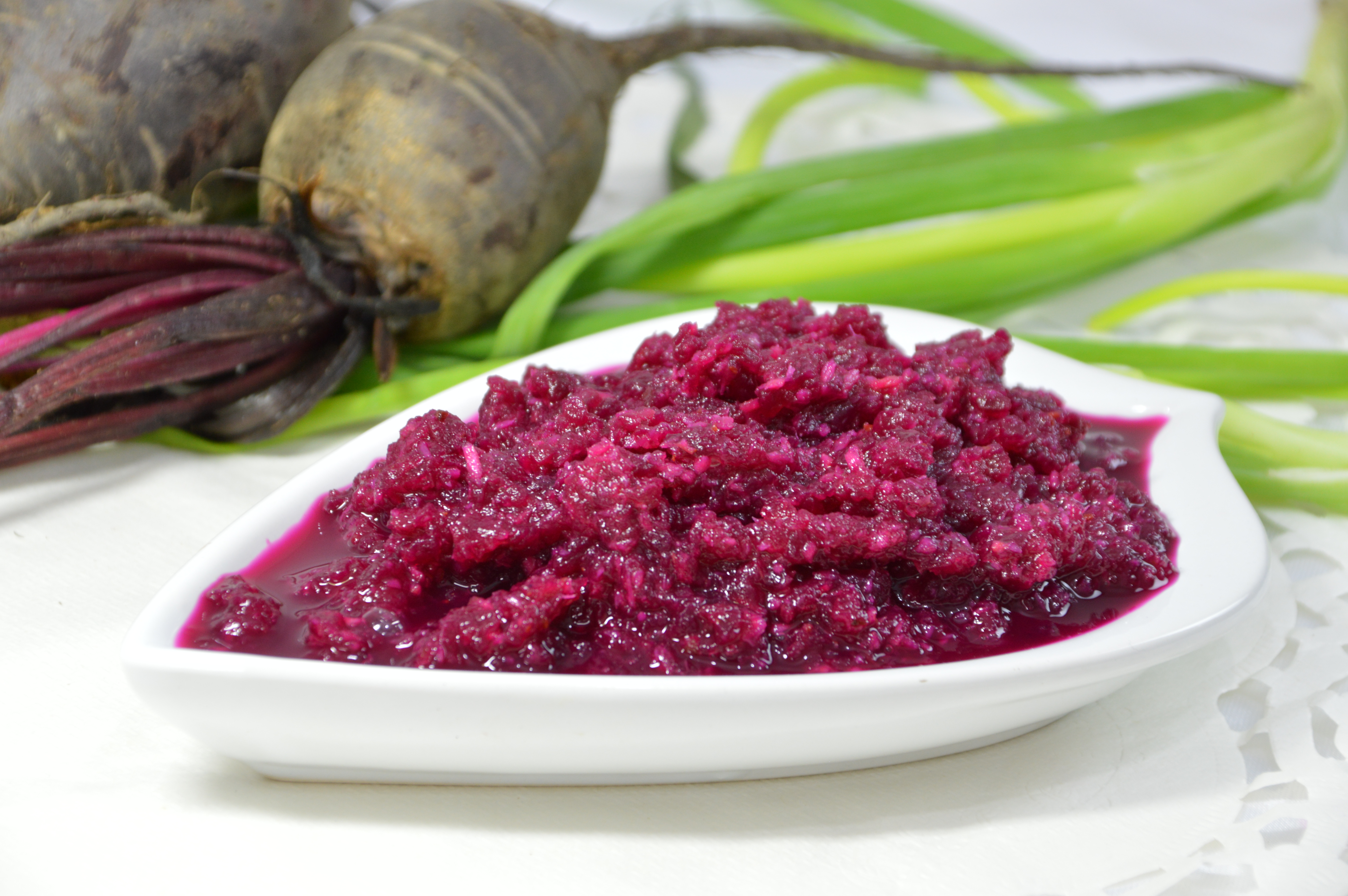 Beet horseradish